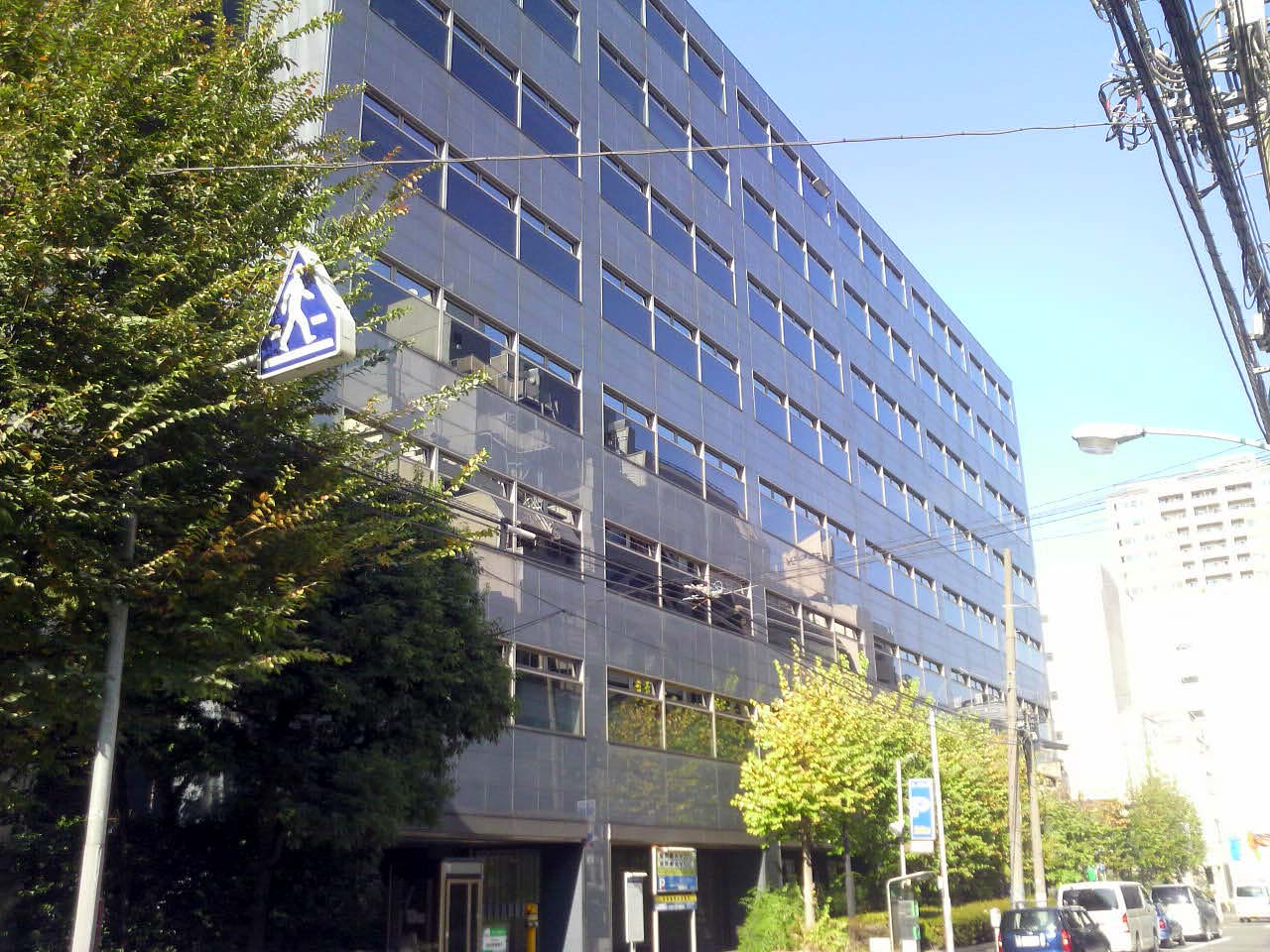 NTT TORANOMON